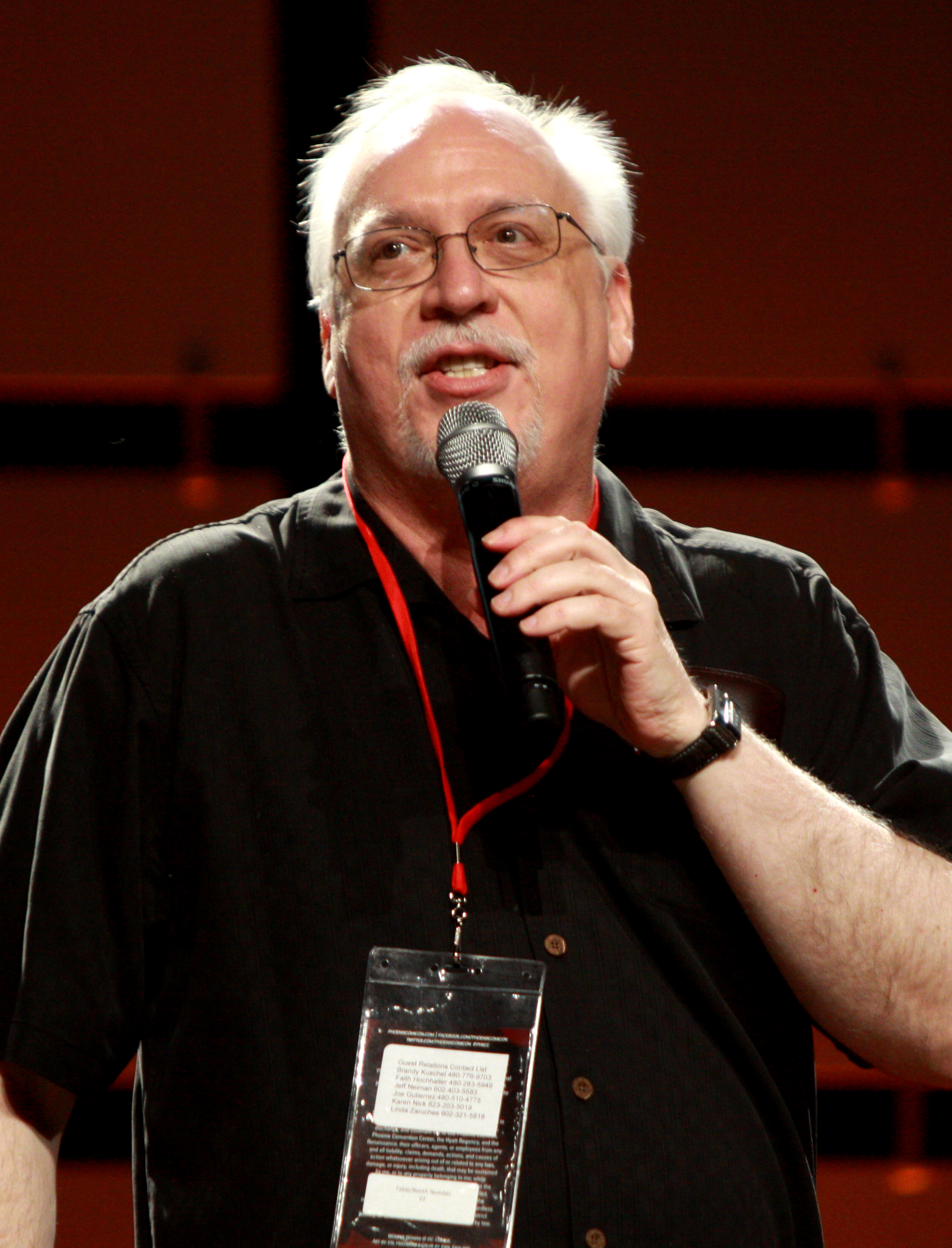 J. Michael Straczynski at the 2013 Phoenix Comicon in Phoenix, Arizona.